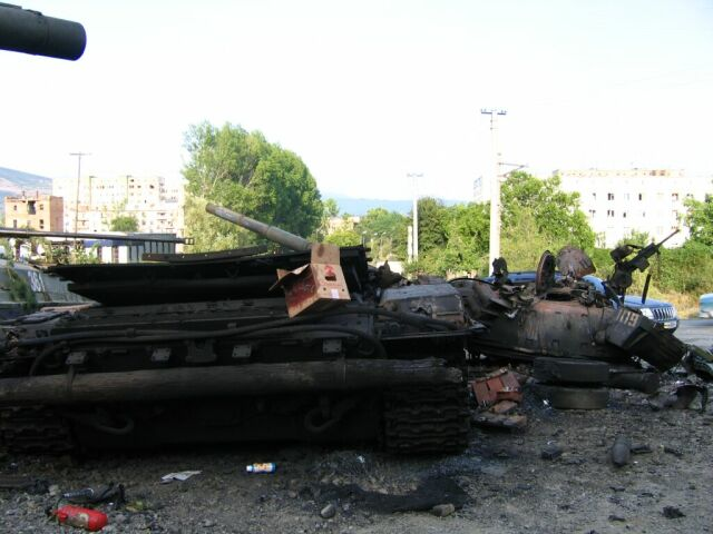 August 2008. Burned Georgian tank in Tskhinval